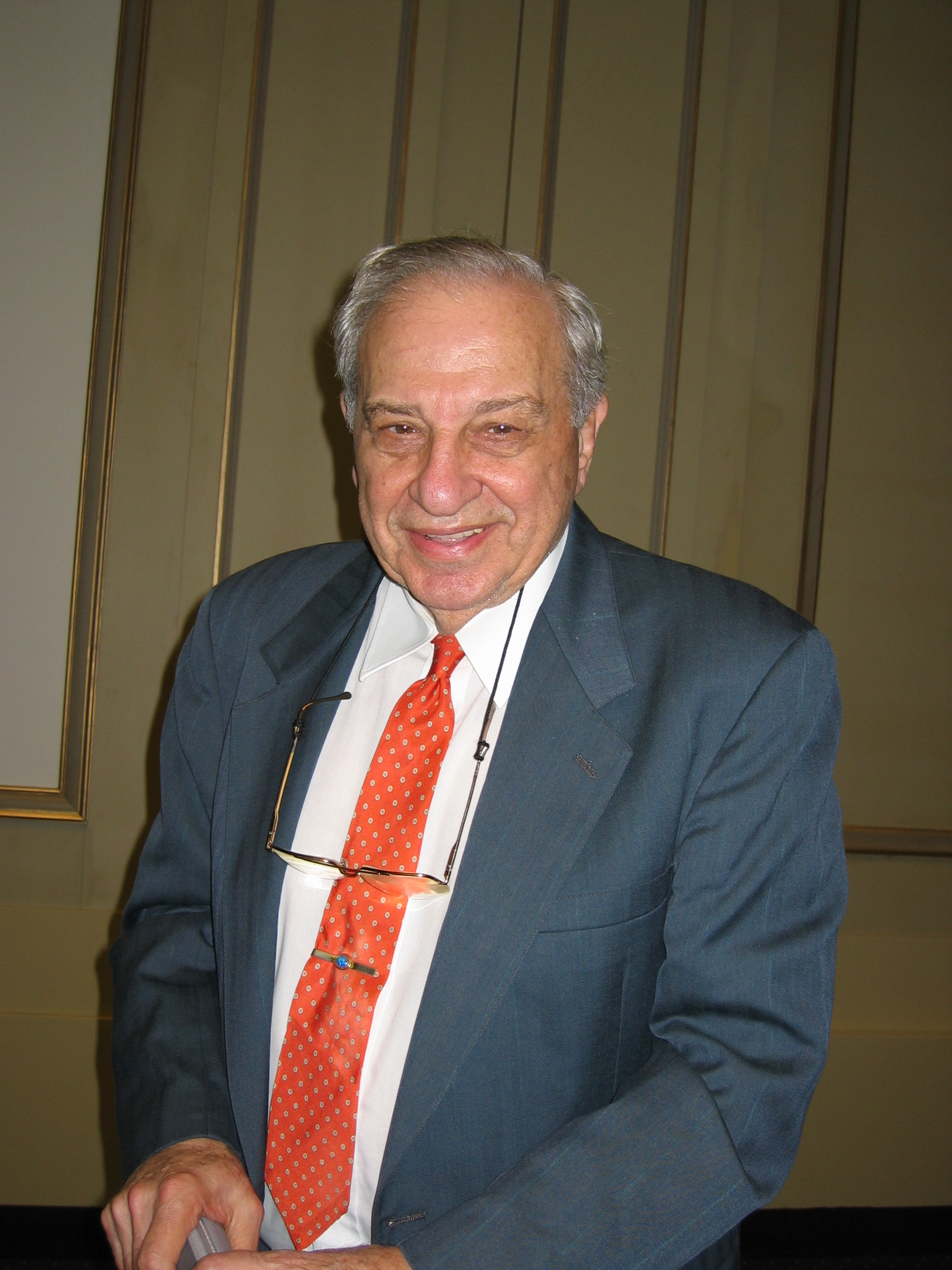 Description: Nobelprize Winner Prof. Dr. Rudolph A. Marcus in at the granting of a honorary doctorate to J. Jordner, 11.11.2005 Charite, Berlin